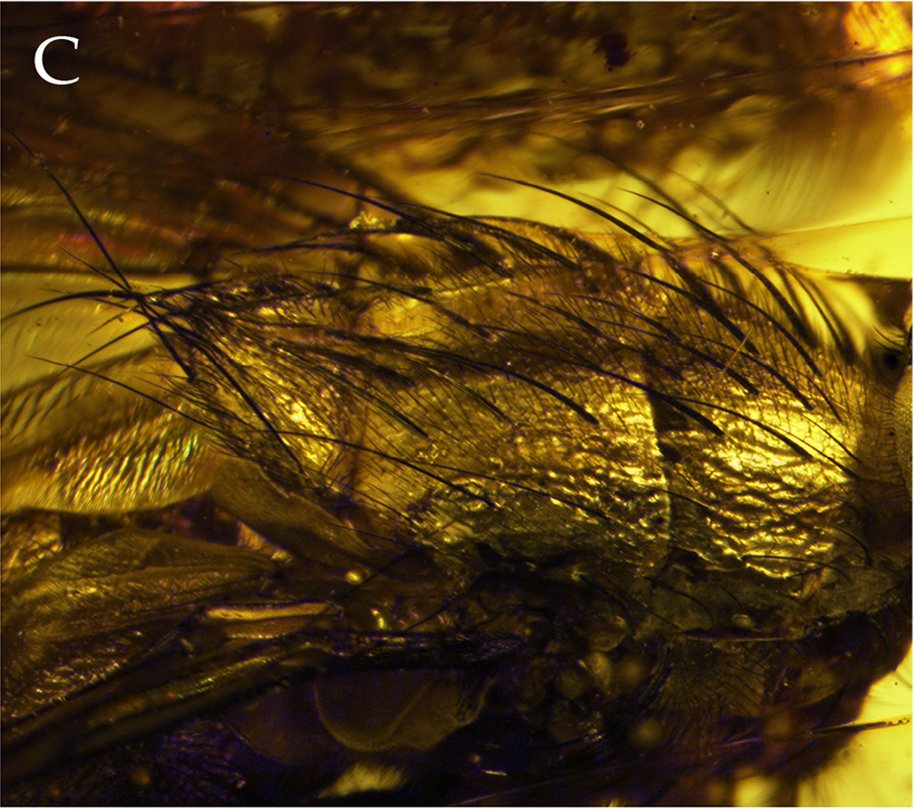 Holotype of Mesembrinella caenozoica (C) thorax in right dorsolateral view.